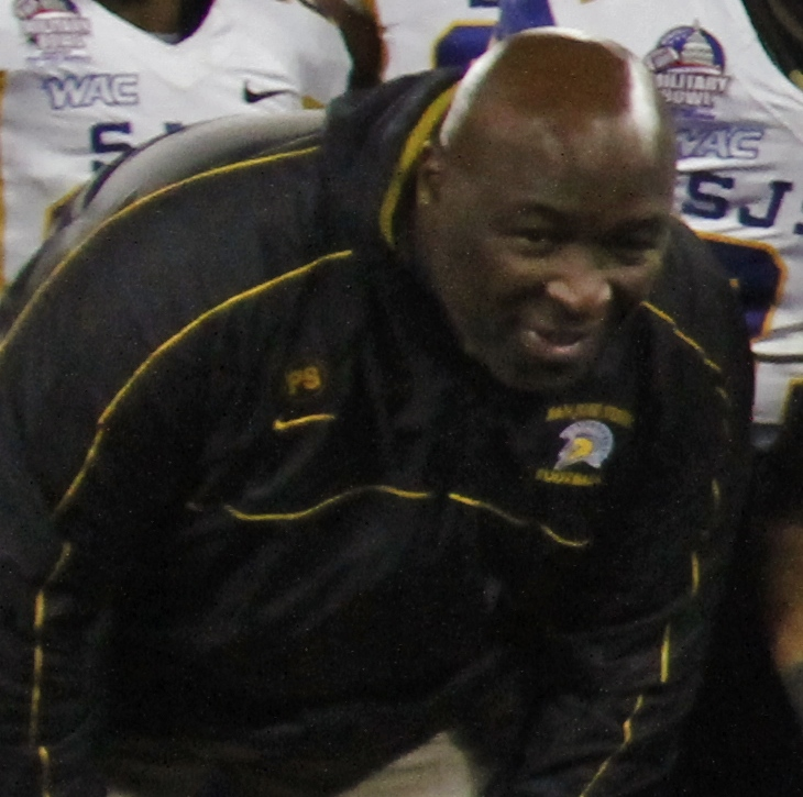 San Jose State defensive line coach and former NFL defensive end Jim Jeffcoat after the 2012 Military Bowl.